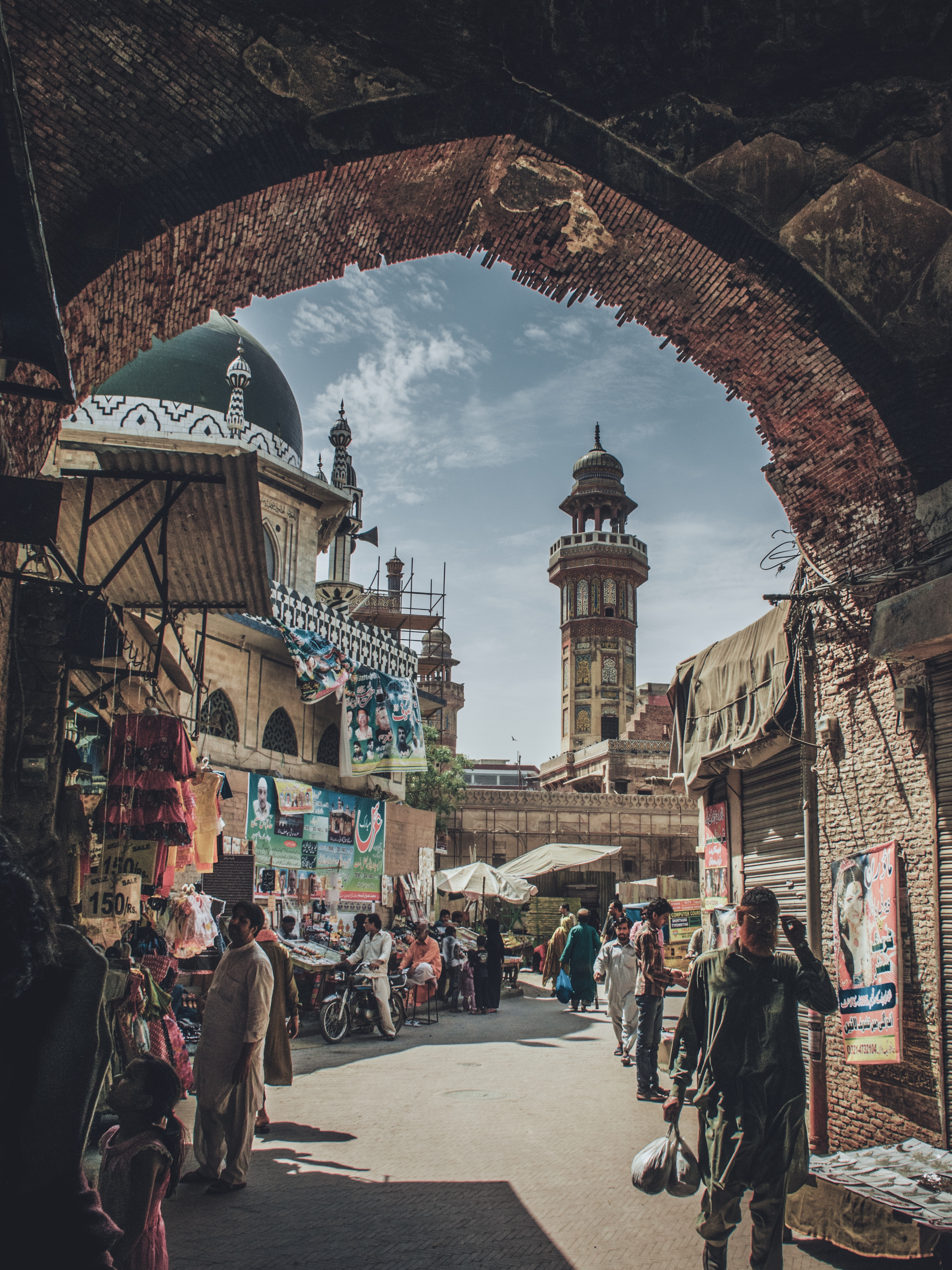 Chitta Gate (White Gateway), so called because it was finished with white glazed lime plaster. It is the eastern entrance to Chowk Wazir Khan, Walled City,Lahore. This is a photo of a monument in Pakistan identified as the PB-49